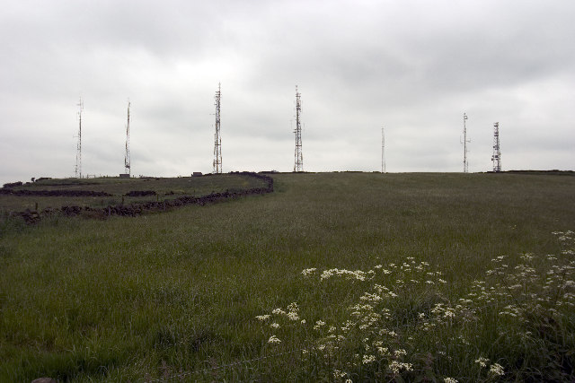 Aerial Array at Alport Height